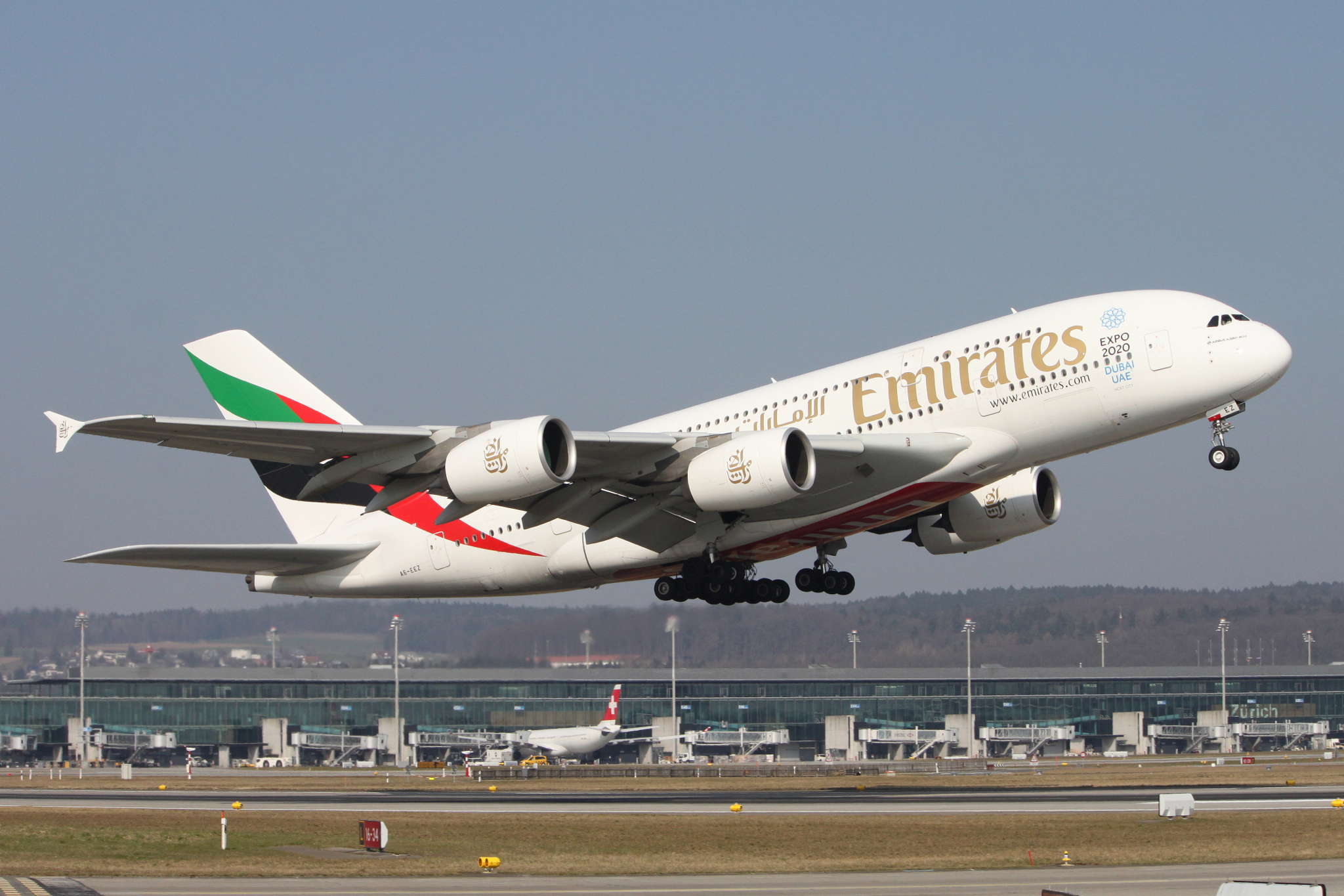 A6-EEZ leaving Zürich Airport.